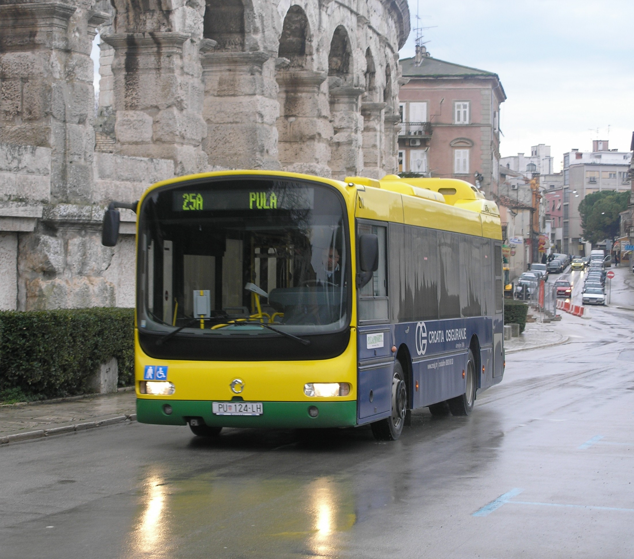 A Pulapromet bus